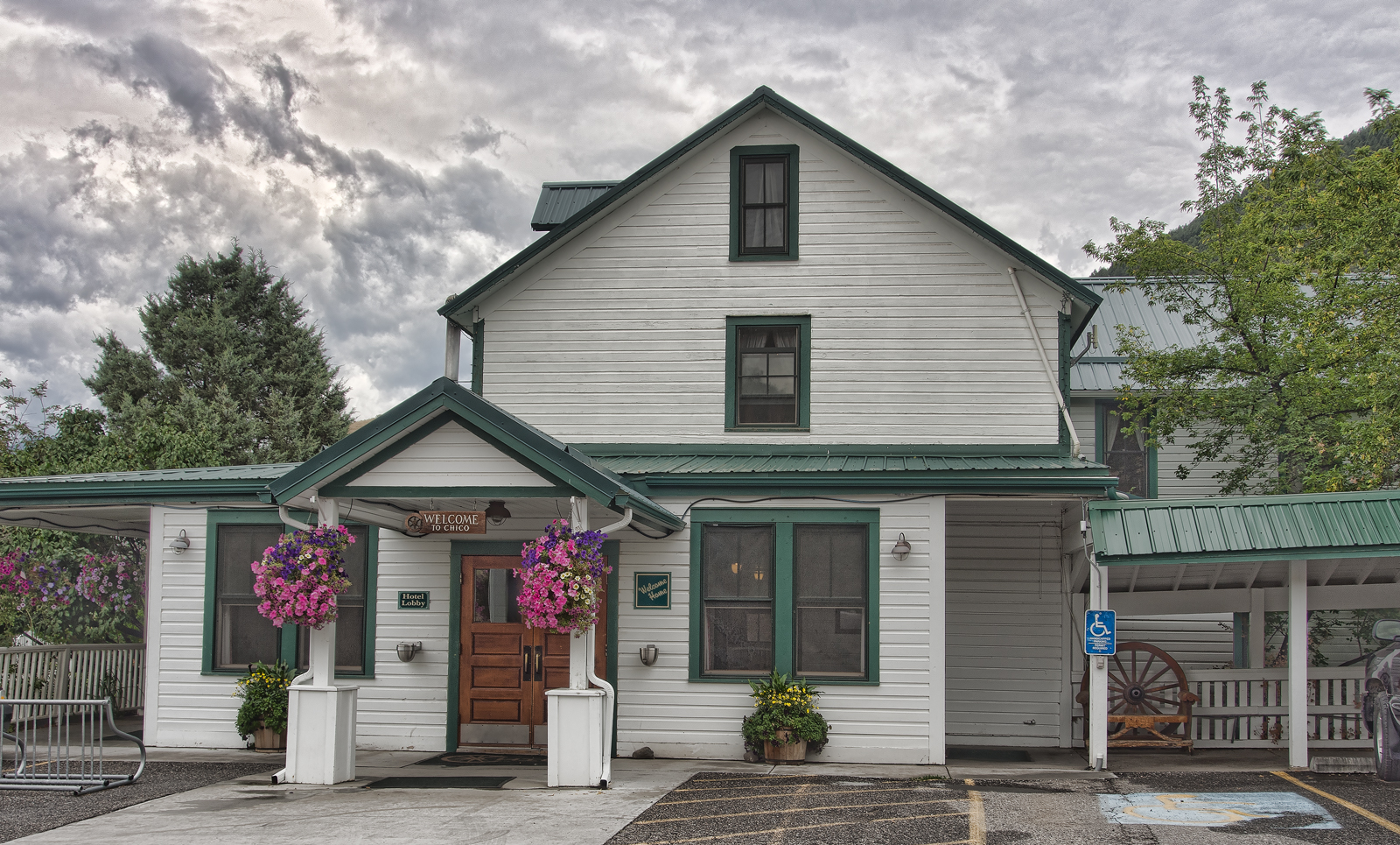 Chico Hot Springs, 2 miles northeast of Chico, 3.5 miles southeast of Emigrant Pray